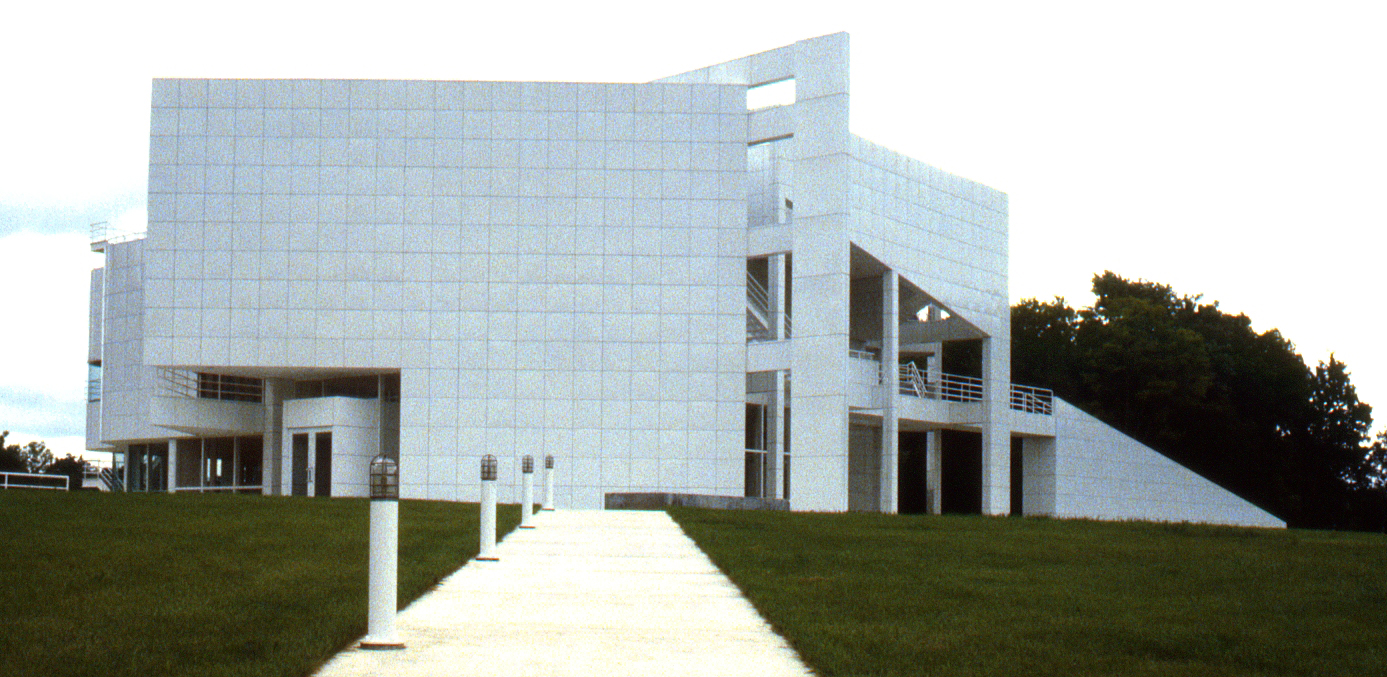 The Atheneum from Richard Meier in New Harmony, Indiana, United States.